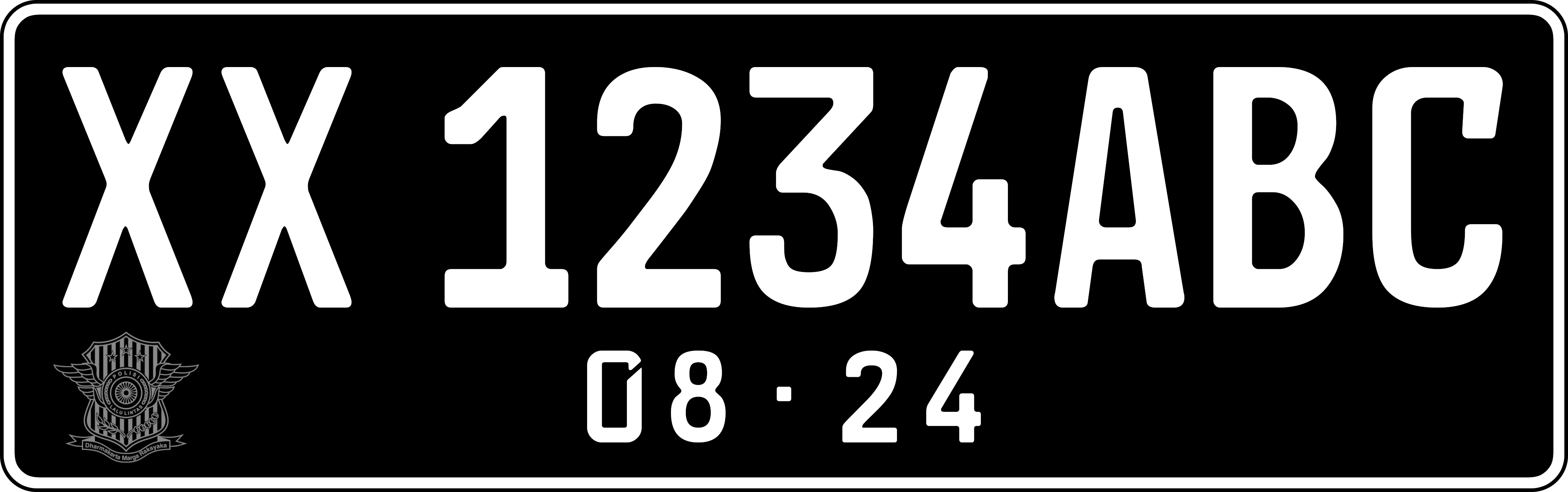 Vehicle License plate of Indonesia